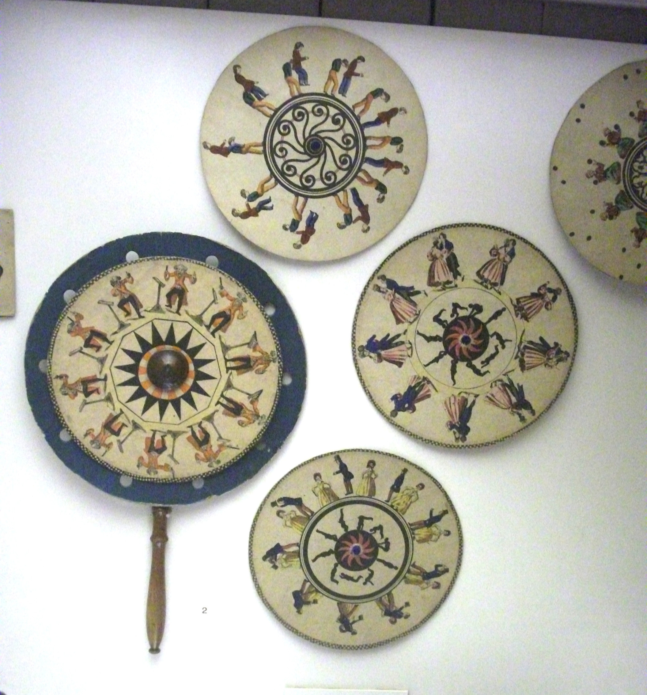 A phenakistoscope (described in the display as a "Phantasmascope") with cards. On display in Bedford Museum.